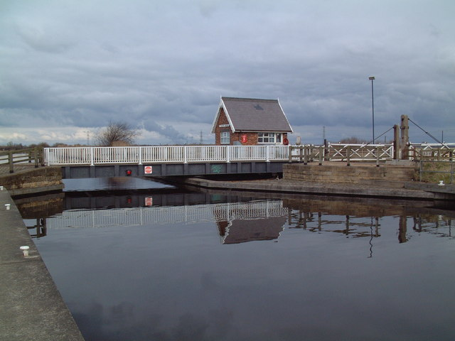 Godnow Bridge. This photograph shows the swing bridge over the Stainforth and Keadby Canal and the level crossing over the railway which are effectively combined. The red "Stop" sign in the centre of the bridge would appear to be a statement of the obvious.